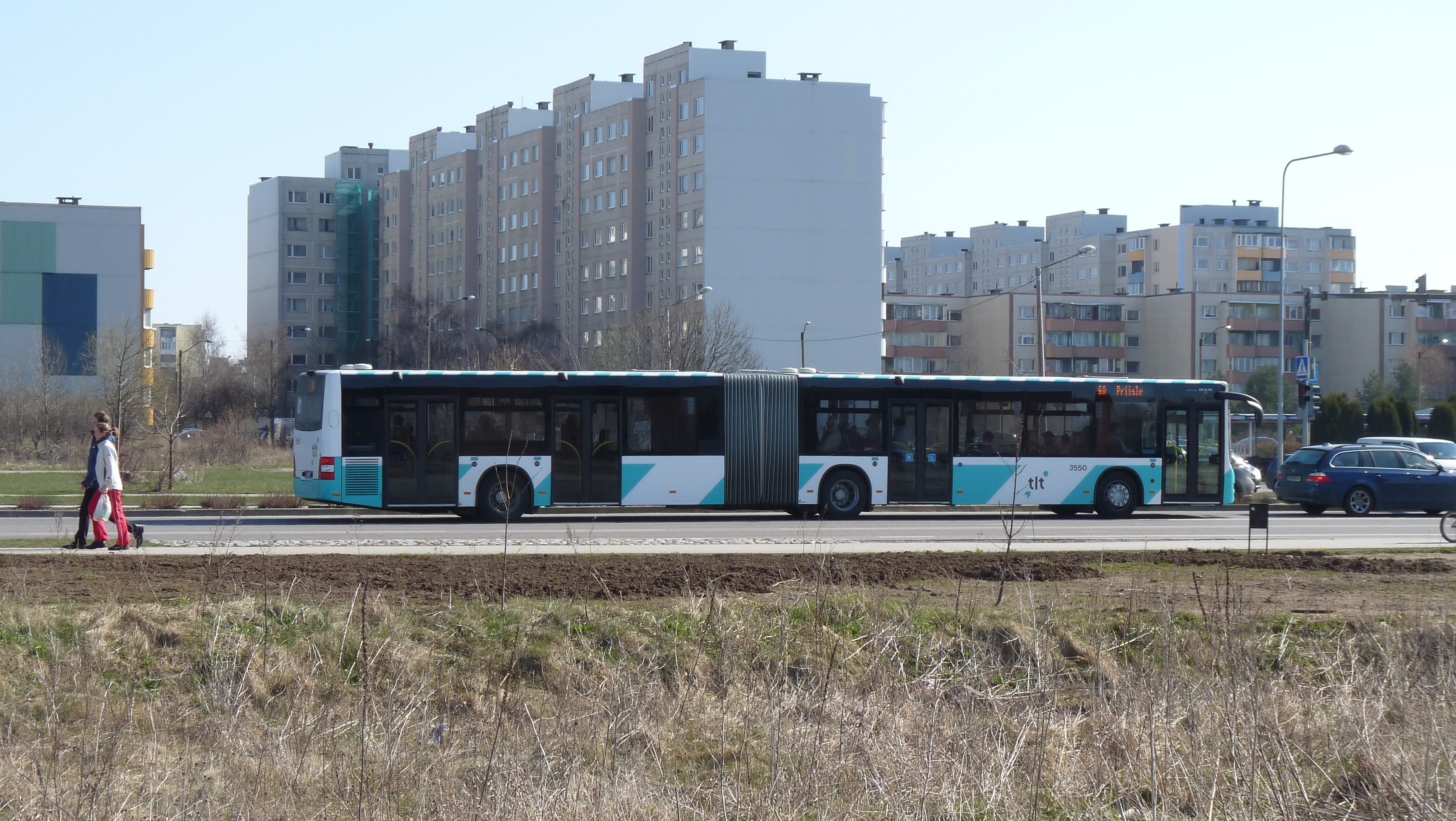 MAN bus in Tallinn, Estonia